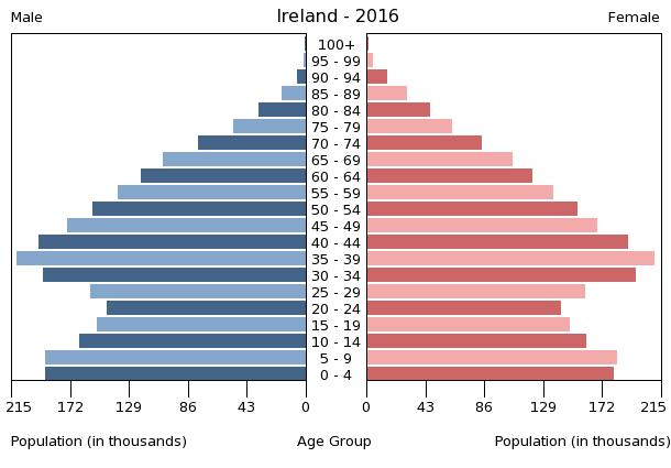 The population pyramid of Ireland illustrates the age and sex structure of population and may provide insights about political and social stability, as well as economic development. The population is distributed along the horizontal axis, with males shown on the left and females on the right. The male and female populations are broken down into 5-year age groups represented as horizontal bars along the vertical axis, with the youngest age groups at the bottom and the oldest at the top. The shape of the population pyramid gradually evolves over time based on fertility, mortality, and international migration trends.